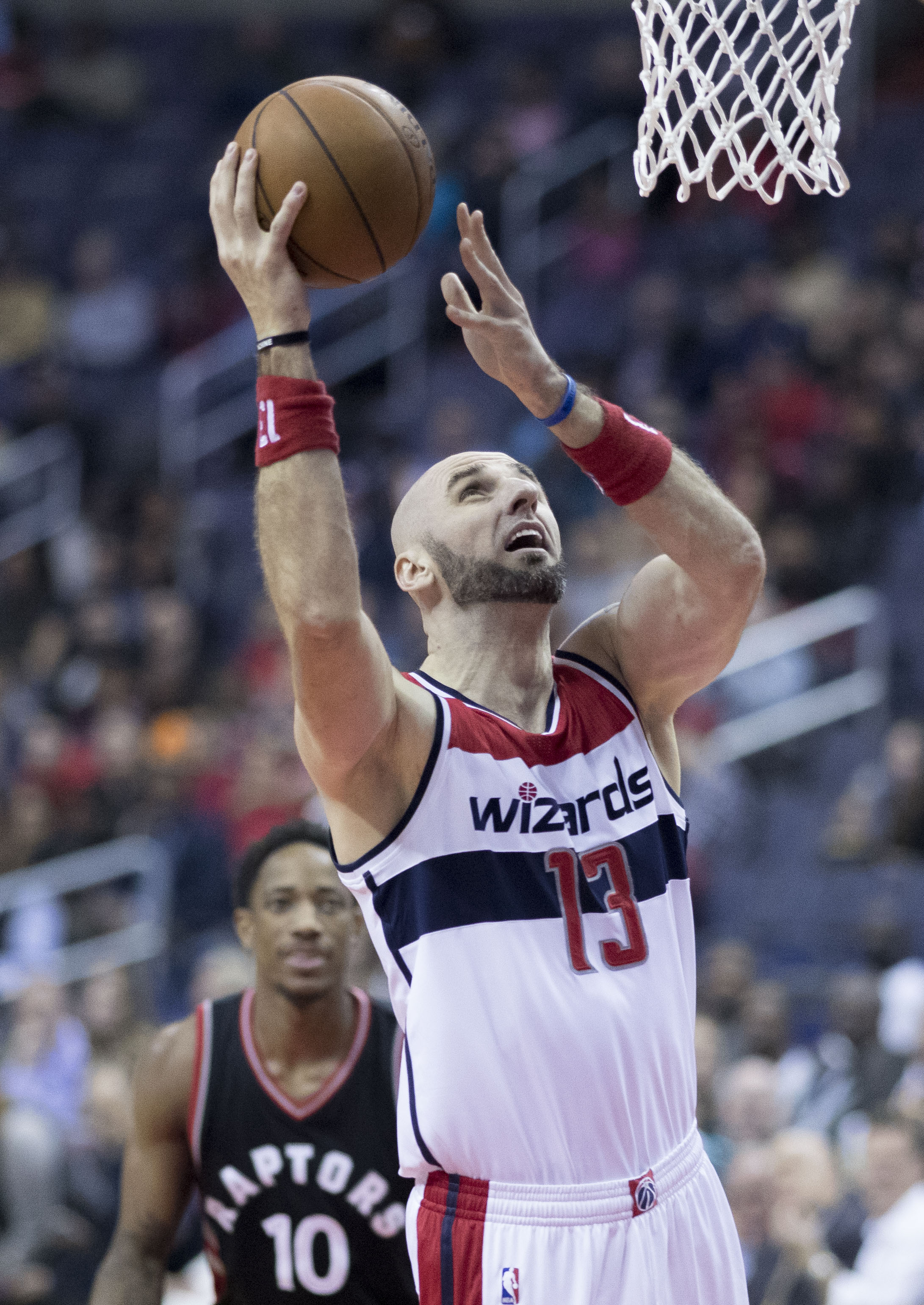 Marcin Gortat of the Washington Wizards during a game against the Toronto Raptors at Verizon Center on November 2, 2016 in Washington, DC.